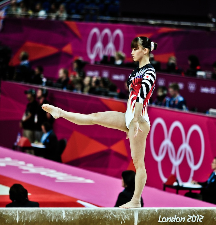 Japanese gymnast Rie Tanaka performing on the balance beam at the London Summer Olympics, July 2012